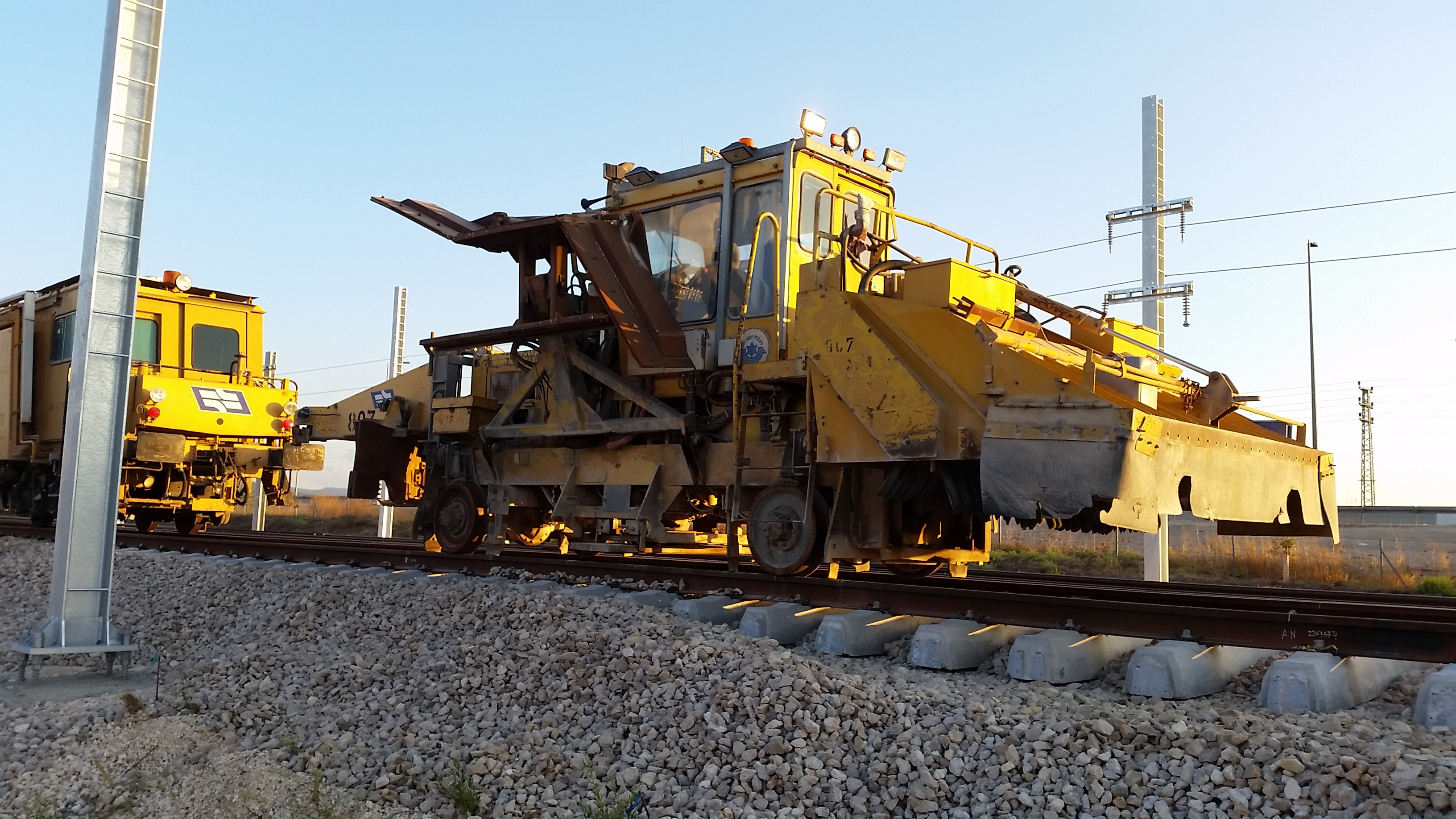 Ballast Regulator Kershaw 26-3 of Israel Railways Jerusalem - Tel Aviv new railway line construction